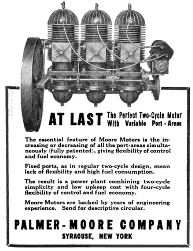 Palmer-Moore, "Moore Motors" - June, 1912